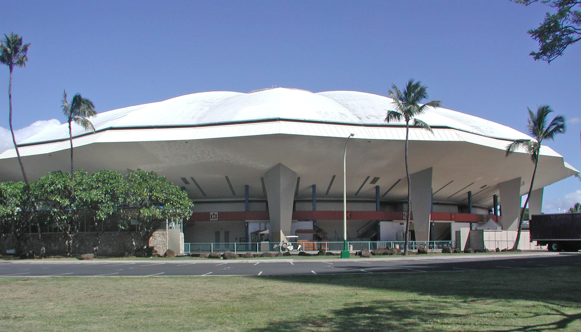 Blaisdell Arena, Ward Avenue, Honolulu, Hawaii